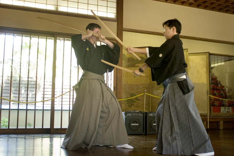 Technique of the Niten Ichi Ryu, Nito Seiho (Two swords set of technique), executed by Sensei Jorge Kishikawa